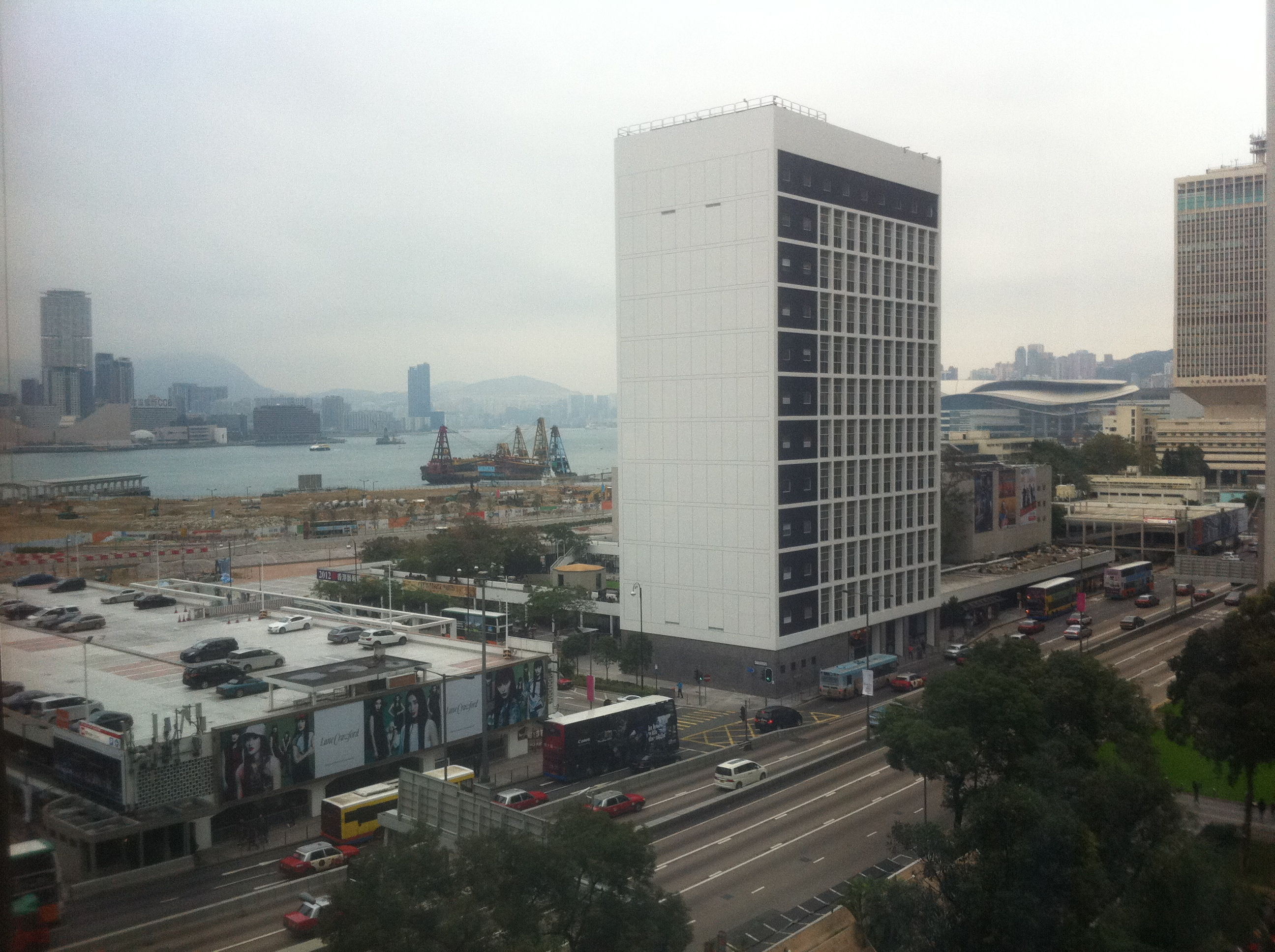 文華東方酒店, Mandarin Oriental Hotel, Central, Hong Kong